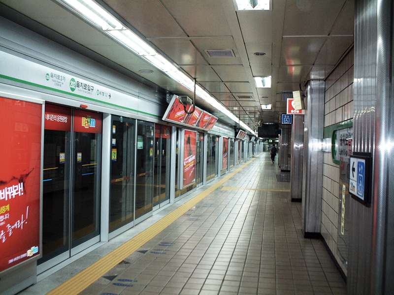 Euljiro 1-ga Station.